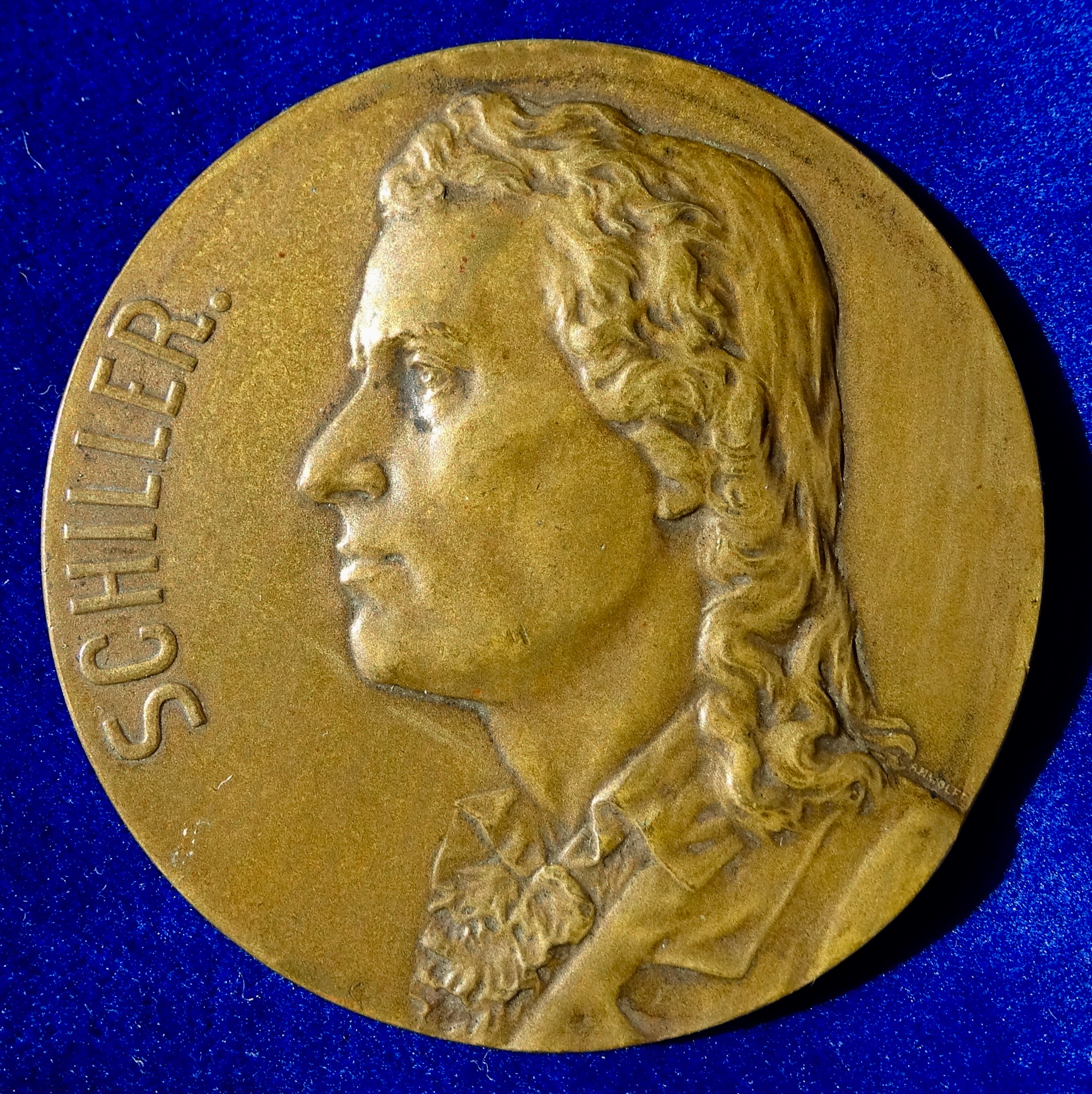 Friedrich Schiller, German Poet and Surgeon 100th Death Anniversary, Art Nouveau Medal 1905 by A.M. Wolff, Berlin after J.H. von Dannecker. Curved l. of Portrait l.: "SCHILLER."/ A winged female genius standing l. behind Schiller after Dannecker's sculpture. 3 lines at r.: "ZUM 9. MAI 1905". Gassimuseum Leipzig # 710; Brettauer # 1126. Medallists: A. (Albert) M. (Moritz) Wolff, 1854 Berlin - 1923 Lüneburg and Johann Heinrich von Dannecker, 1758 Stuttgart - 1841 Stuttgart. Editor: A. Werner Söhne, Berlin 13. Condition: EXTREMELY FINE+.